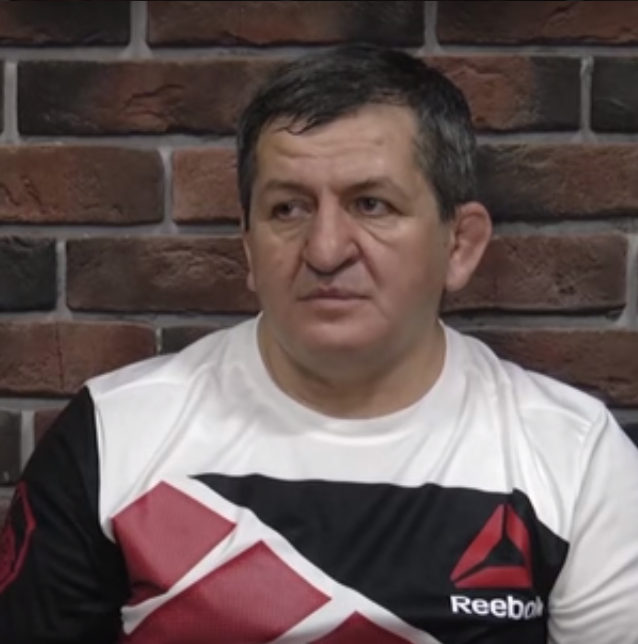 Khabib Nurmagomedov (left) and his father Abdulmanap